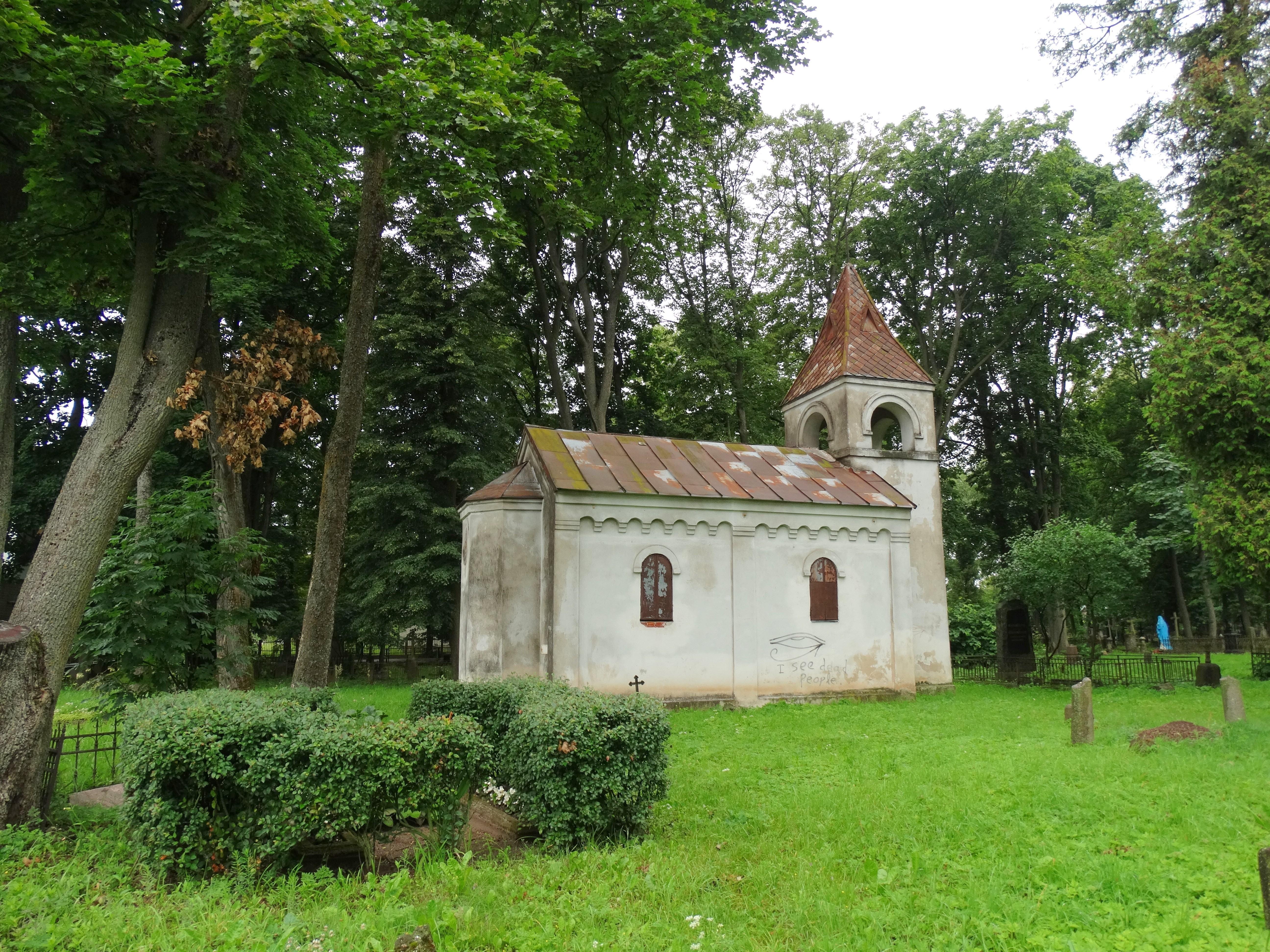 Evangelical Lutheran chapel, Panevėžys, Lithuania